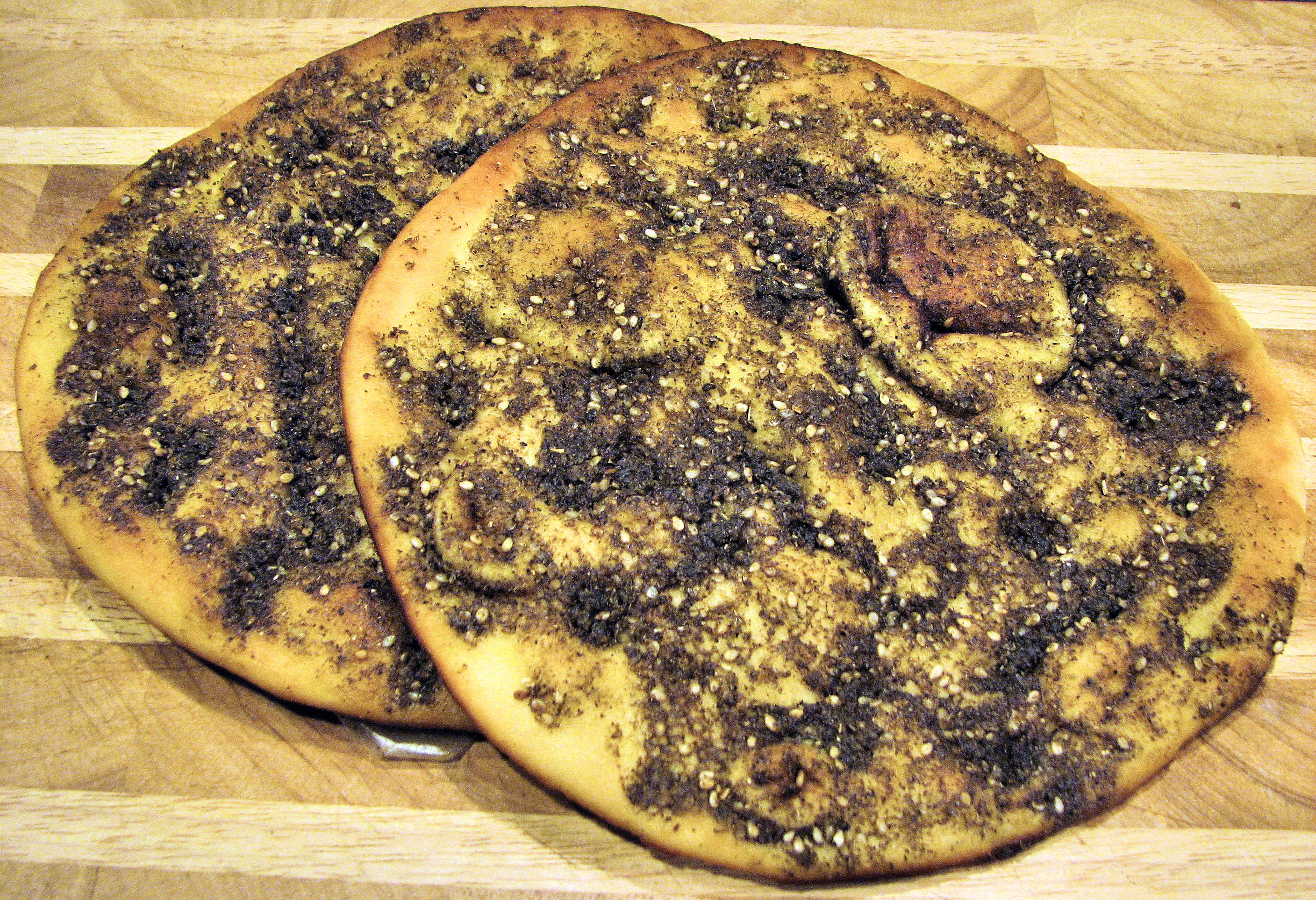 Manakeesh prepared with za'atar from an Israeli bakery.